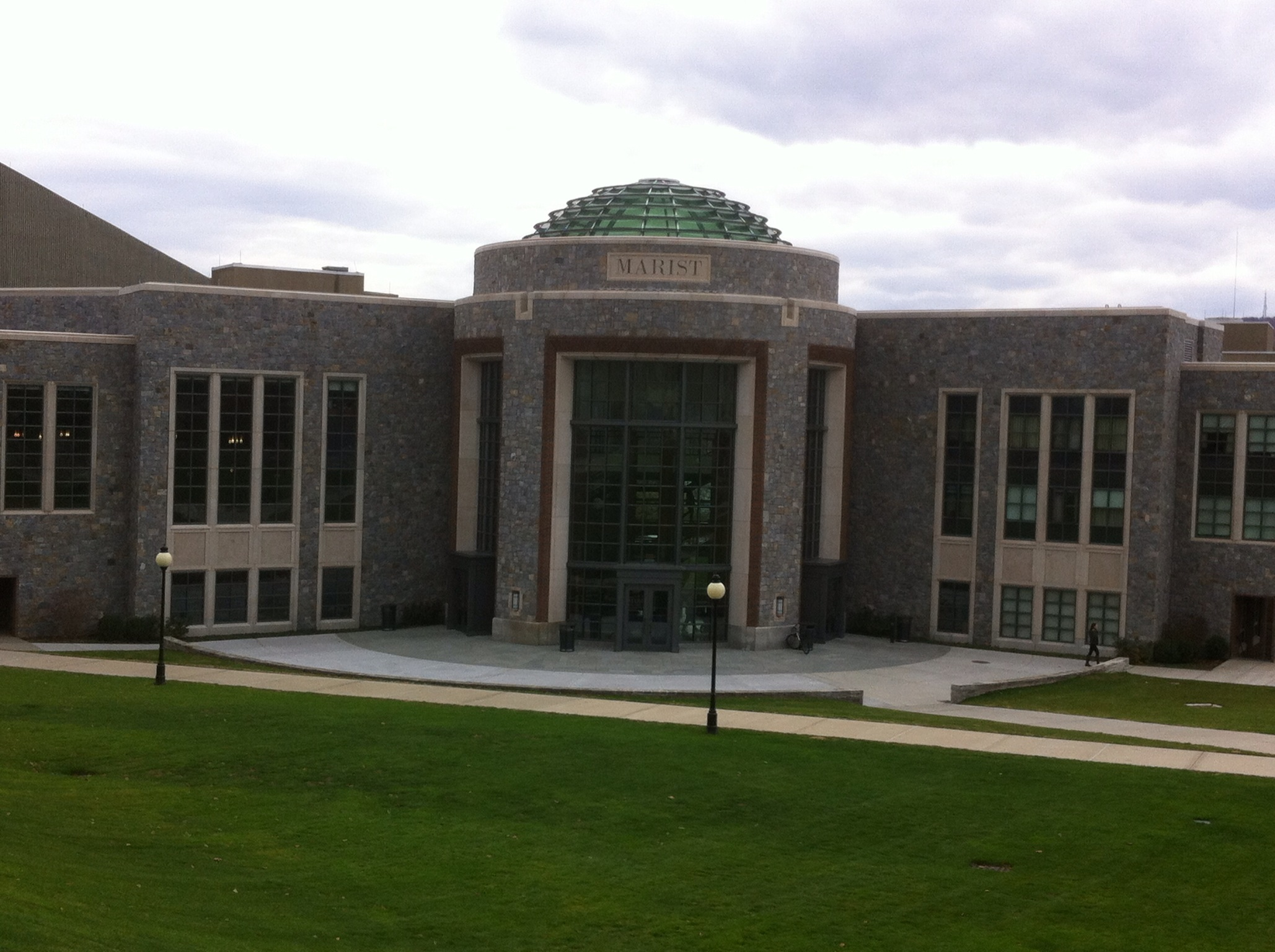 Marist College Student Center Rotunda